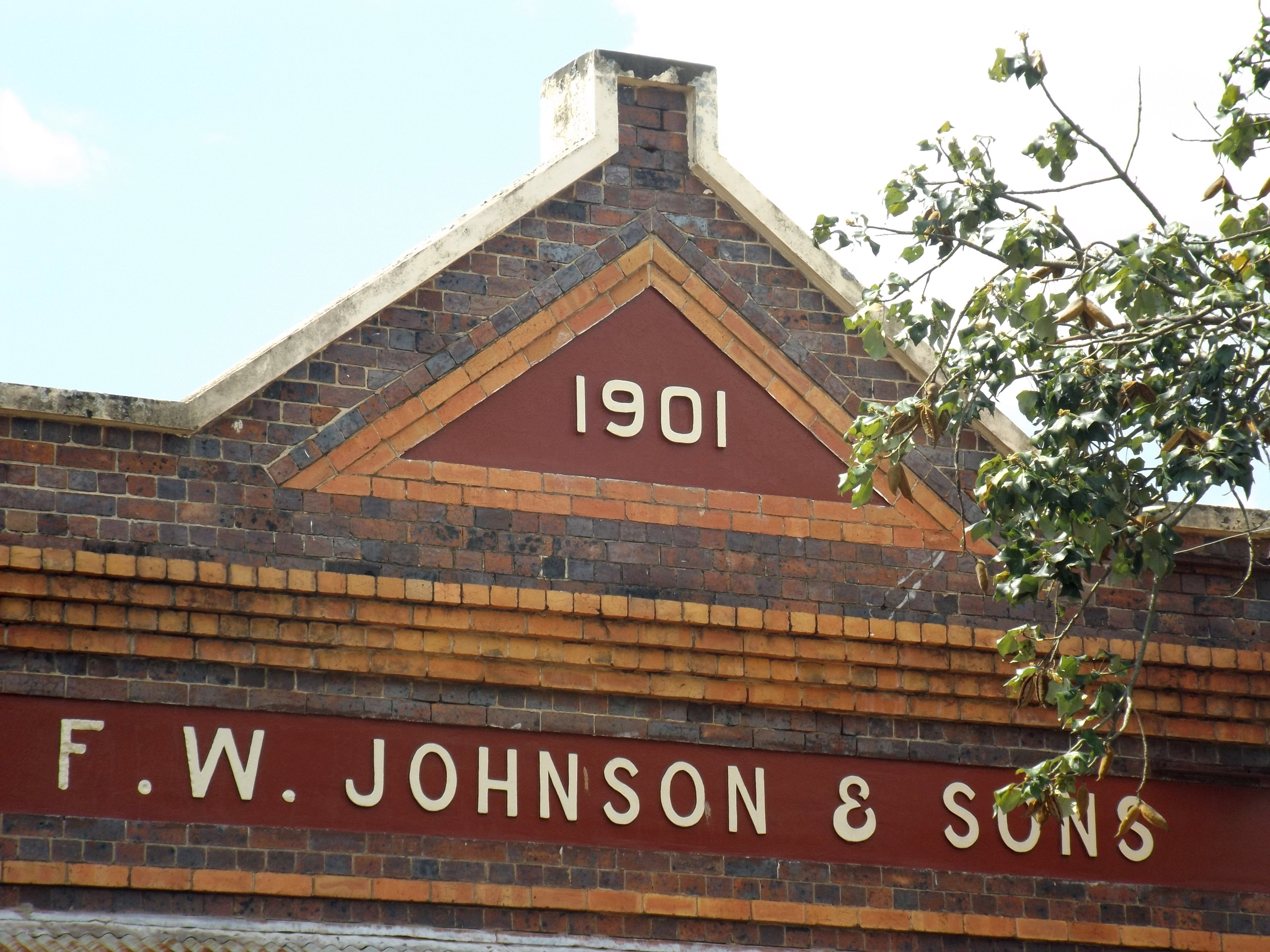 Photo of the Flour Mill in Ipswich, Queensland, Australia.